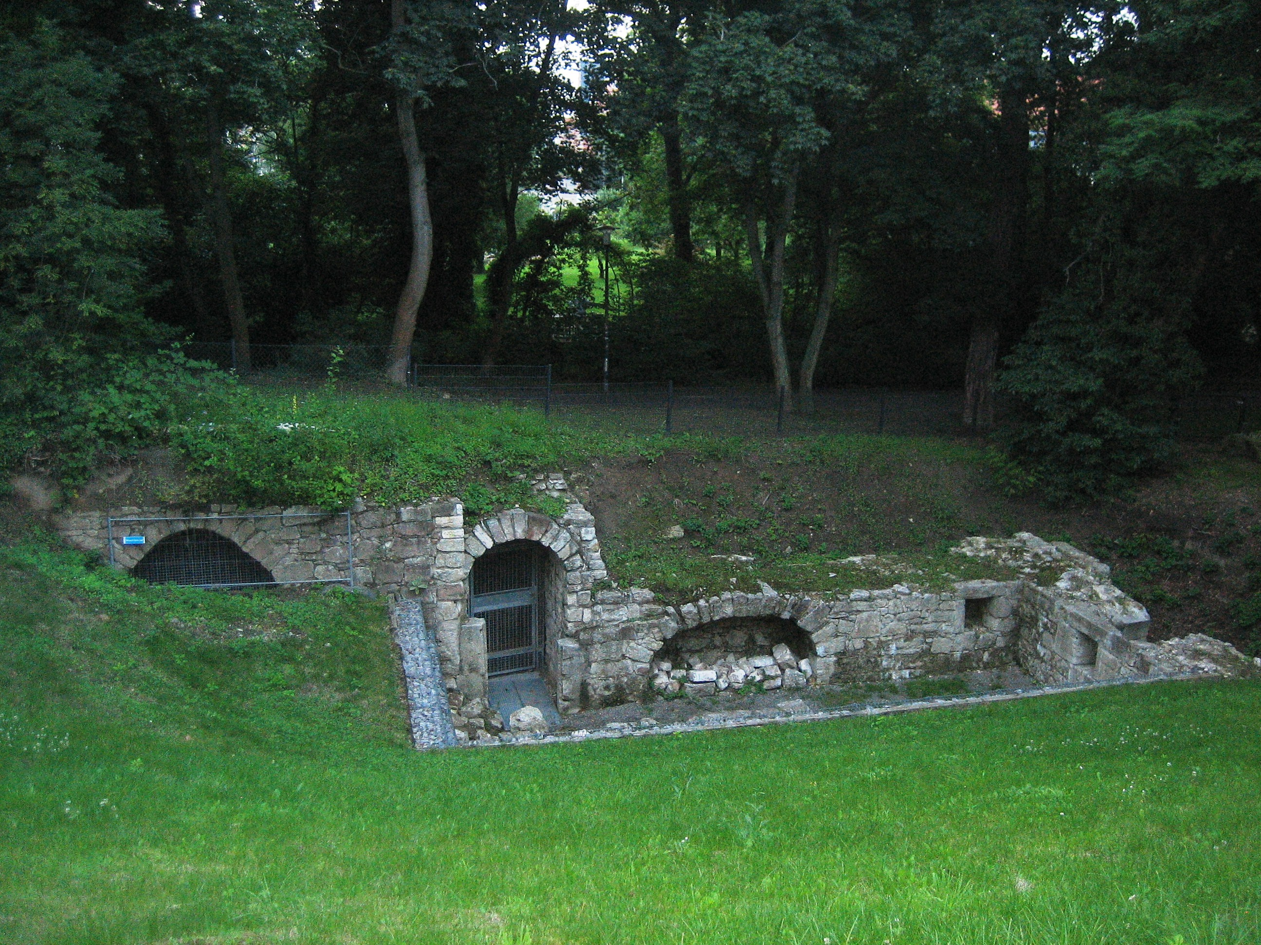 Casemates, part of the old fortification